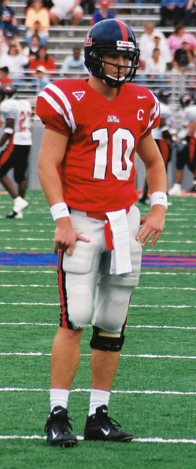 I took this photo myself in September 2003.